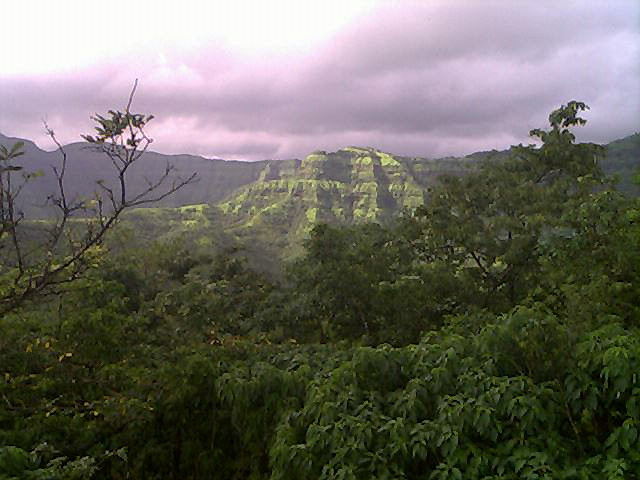 Sahyadri range through thick vegetation in Village Kurang of Dist Ratnagiri. State Maharashtra of India.